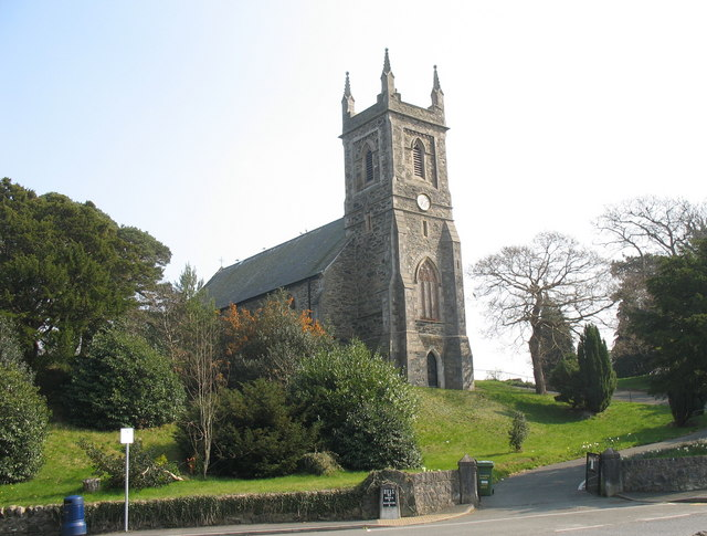 Eglwys y Santes Fair / St Mary's Church, Ffordd Mona This edifice, designed by Henry Kennedy, was built in 1858. One of Thomas Telford's familiar A5 mile stones stands left of the front gate